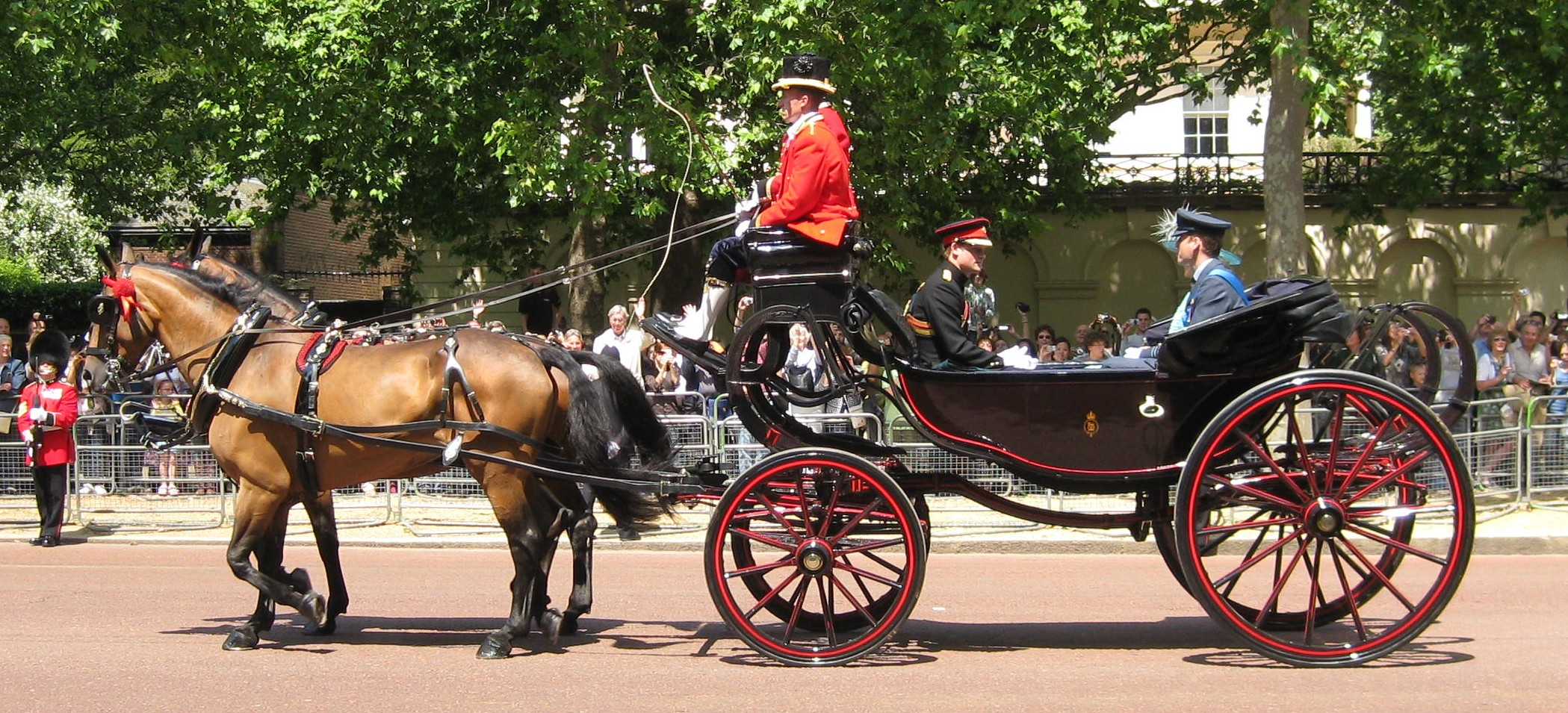 Prince William of Wales & Prince Henry of Wales